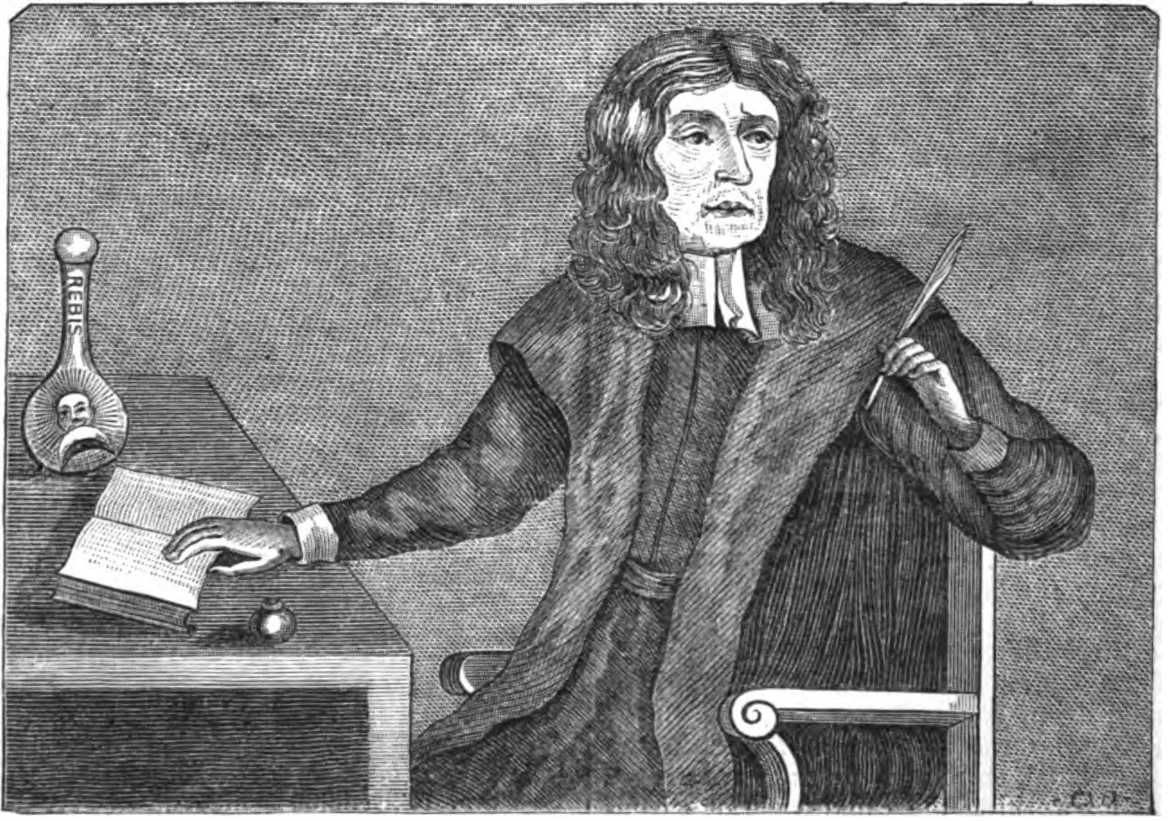 Dr. Garencières, the Translator of Nostradamus (Robert Chambers, p.12, 1832)